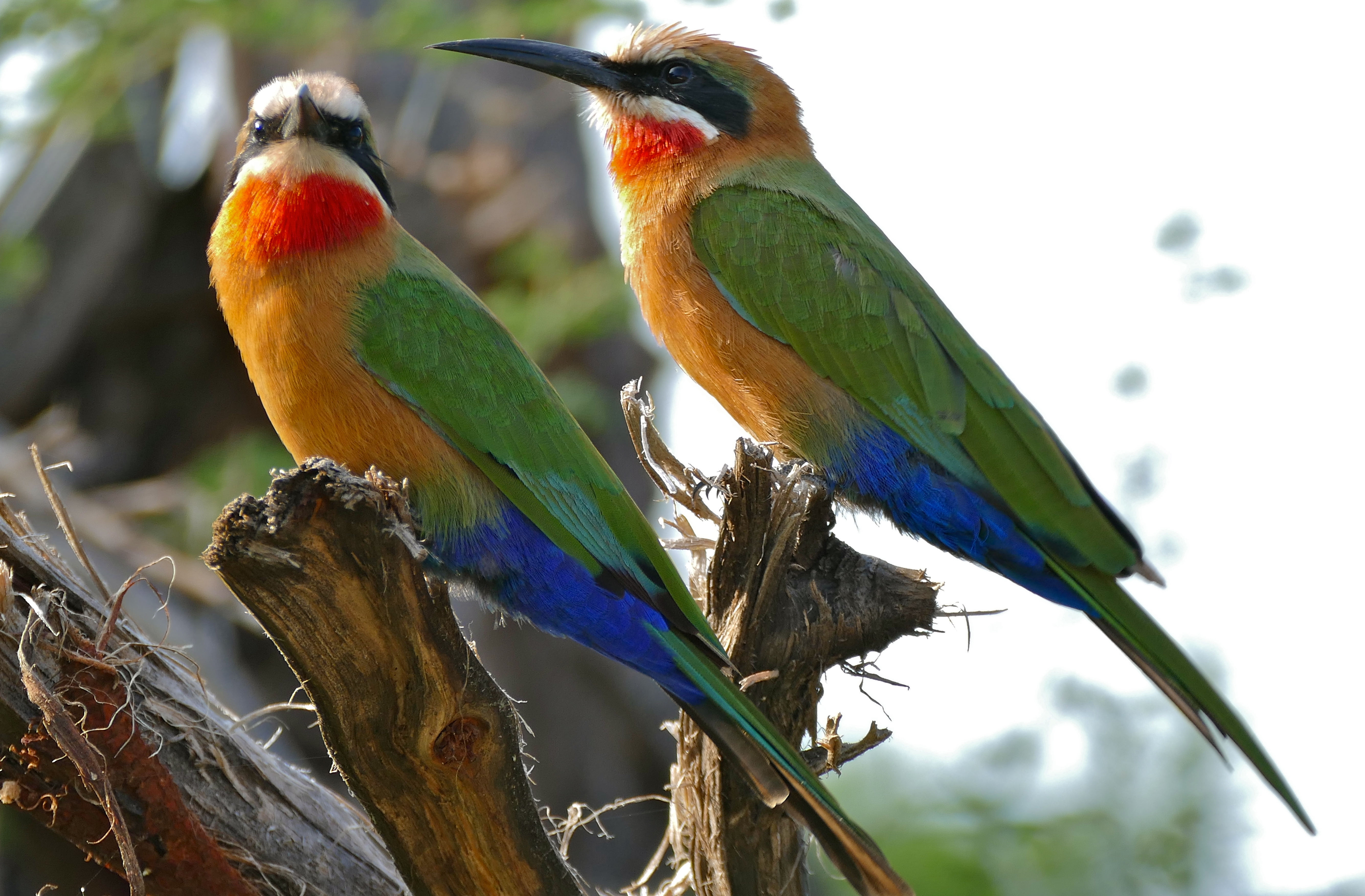 H1-6 Road North of Letaba, Kruger NP, SOUTH AFRICA